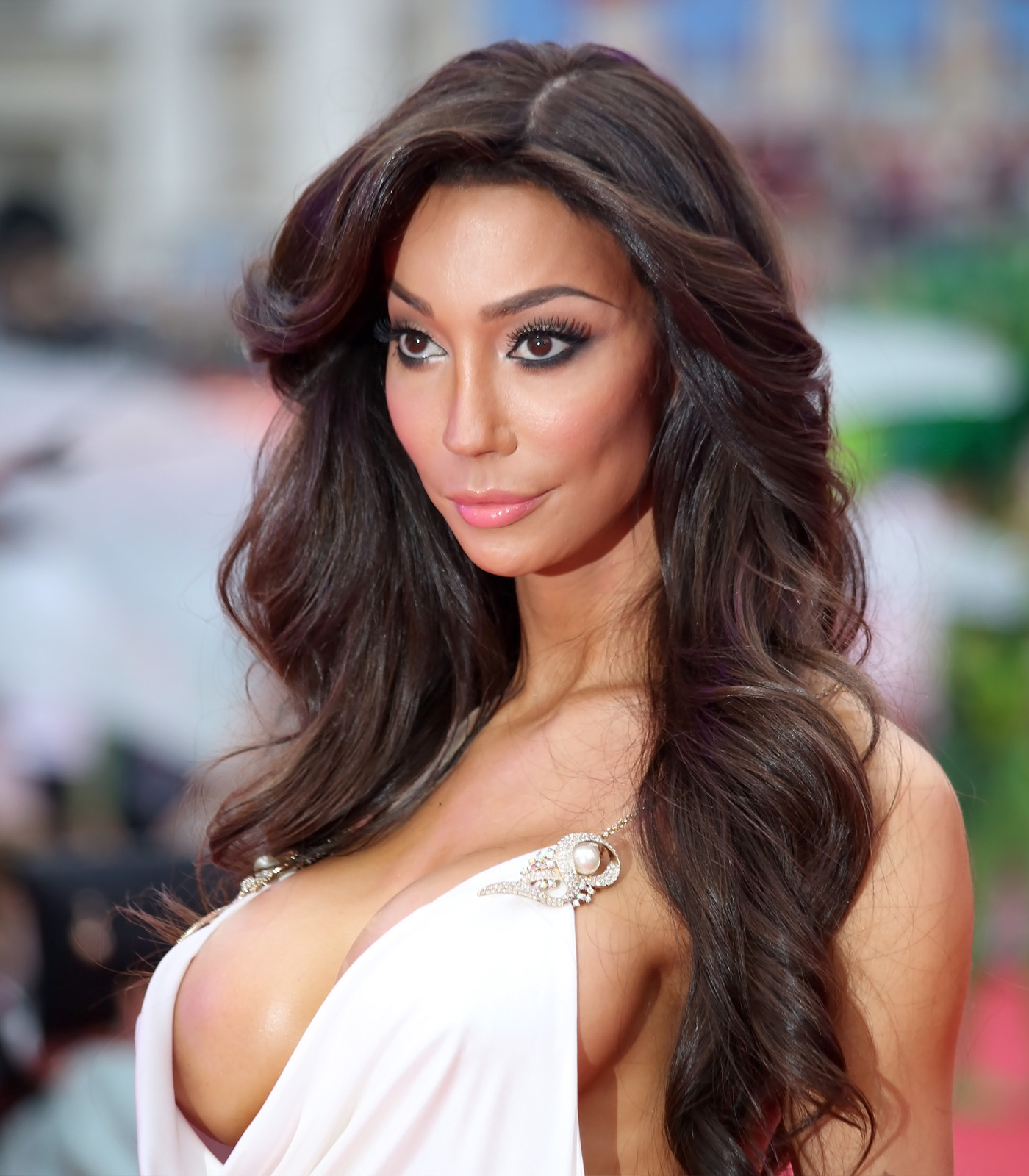 Life Ball 2014, Yasmine Petty on the red carpet in front of the Rathaus (Town Hall) of Vienna, Austria.